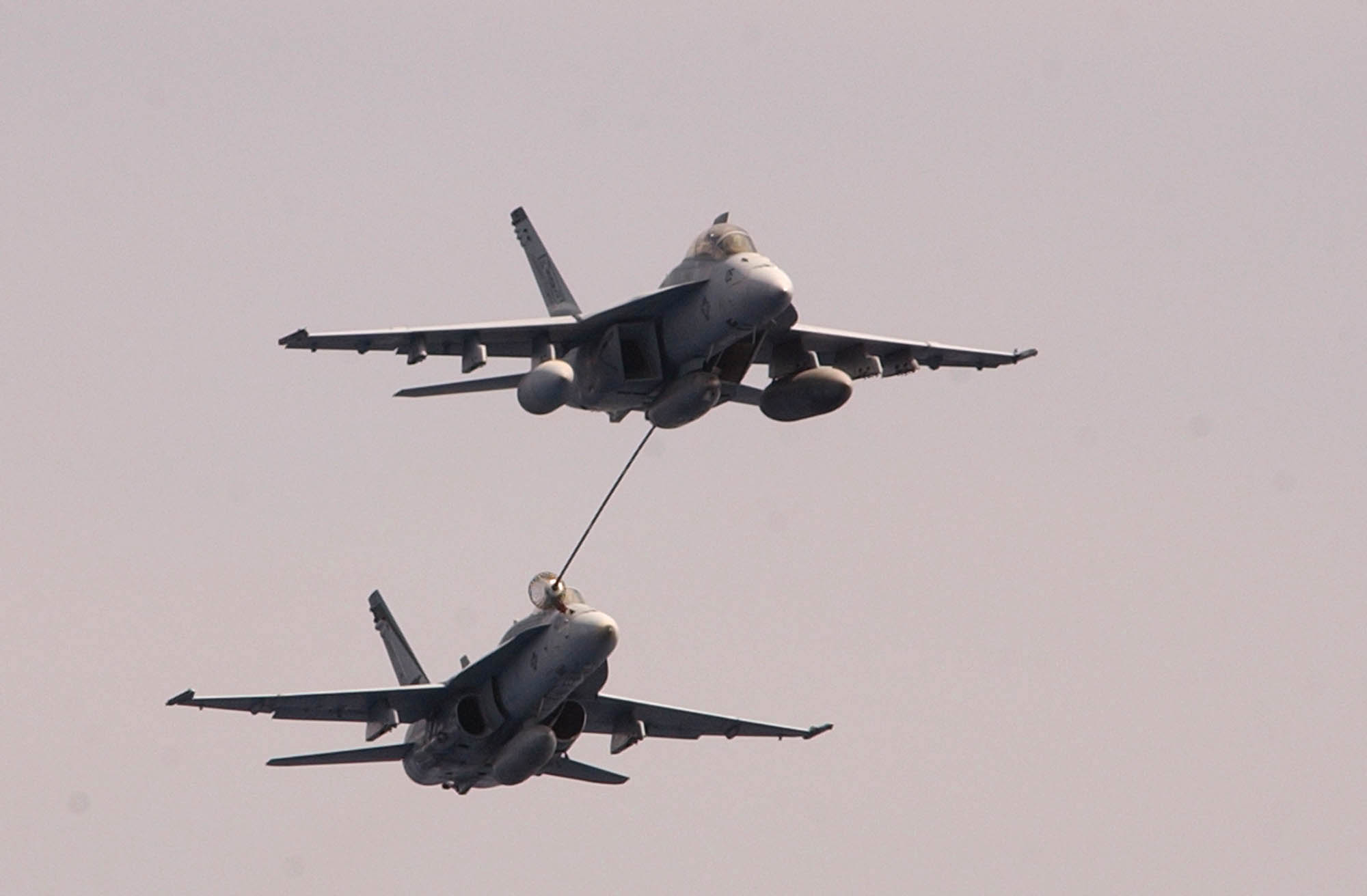 An F/A-18F Super Hornet and an F/A-18C Hornet demonstrate air-to-air refueling for guests and Sailors assigned to the aircraft carrier USS Nimitz (CVN 68) during a Family and Friends Day Cruise. Nimitz is currently undergoing sea trials off the coast of Southern California after completing a Planned Incremental Availability (PIA) maintenance period.